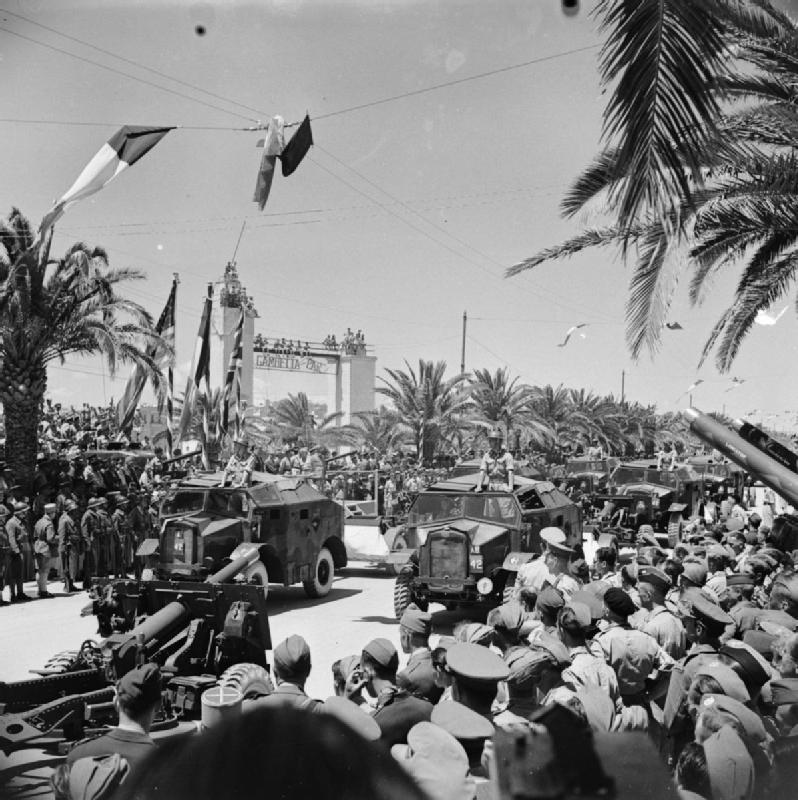 The British Army in Tunisia 1943 25-pdr guns and 'Quad' artillery tractors parade through Tunis, 20 May 1943.